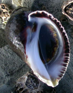 Novak, Mark. Photograph taken near Kaikoura, South Island, New Zealand